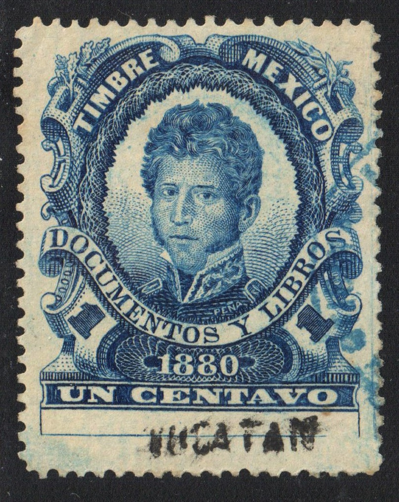 Mexico 1880 documents revenue, District overprint Yucatán. Depicting Vicente Guerrero. Catalogue: Fo. 72